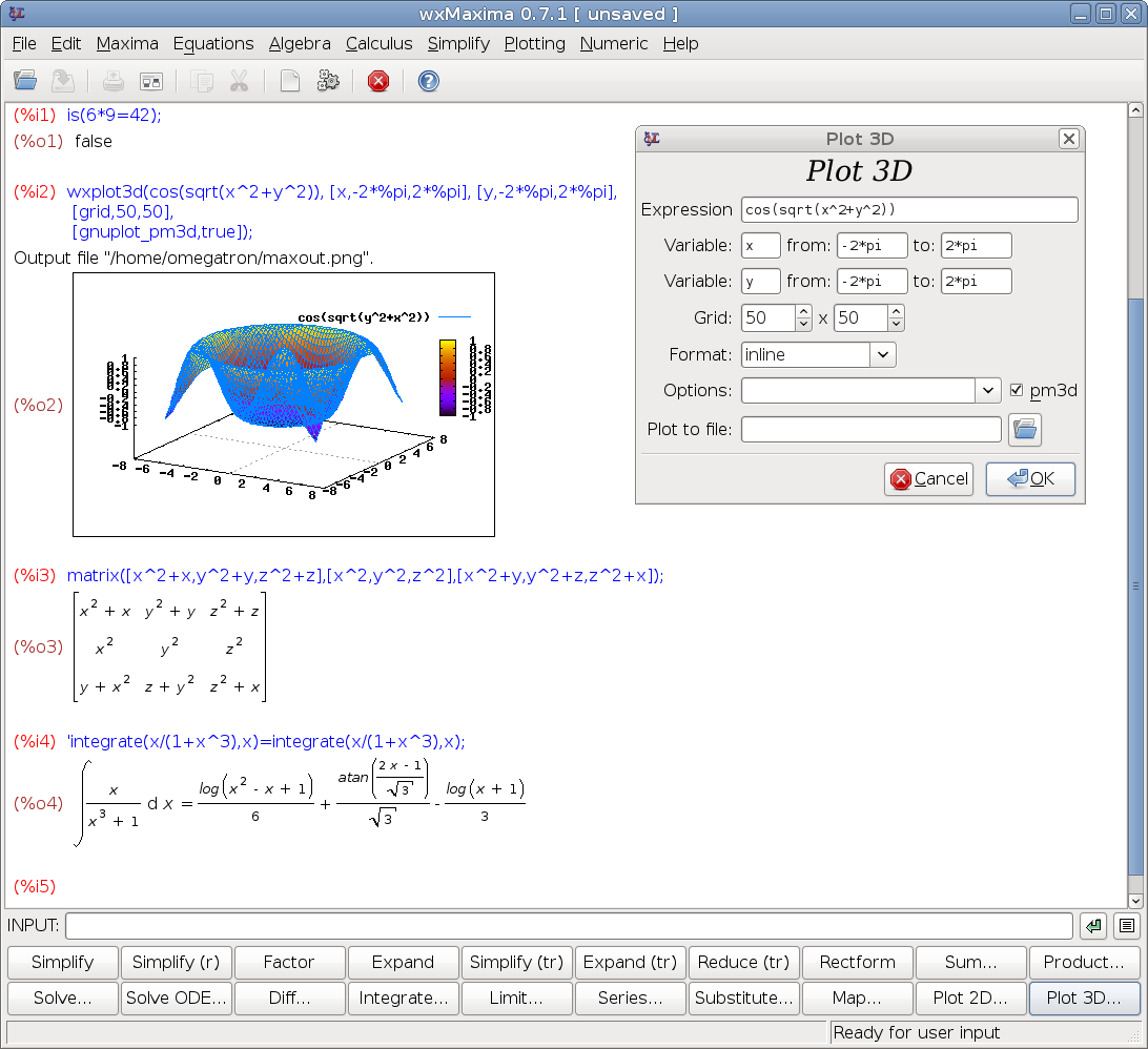 A screenshot of WxMaxima 0.7.1 running in Ubuntu Linux (Clearlooks theme with Tango icons) with some of the standard screenshot equations and a plotting window open to demonstrate the newer features and look of Maxima.